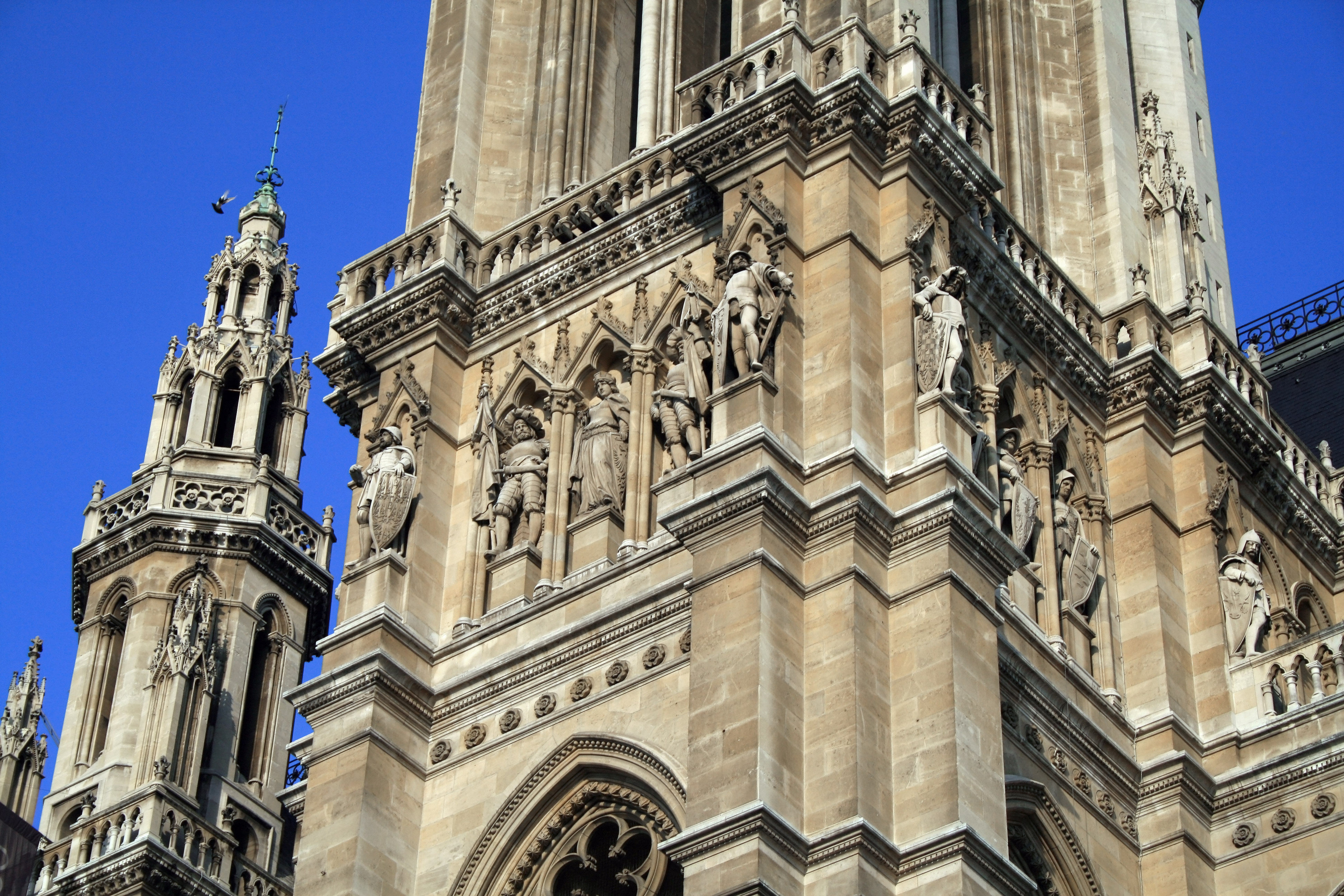 Detail of the facad of Rathaus in Vienna.